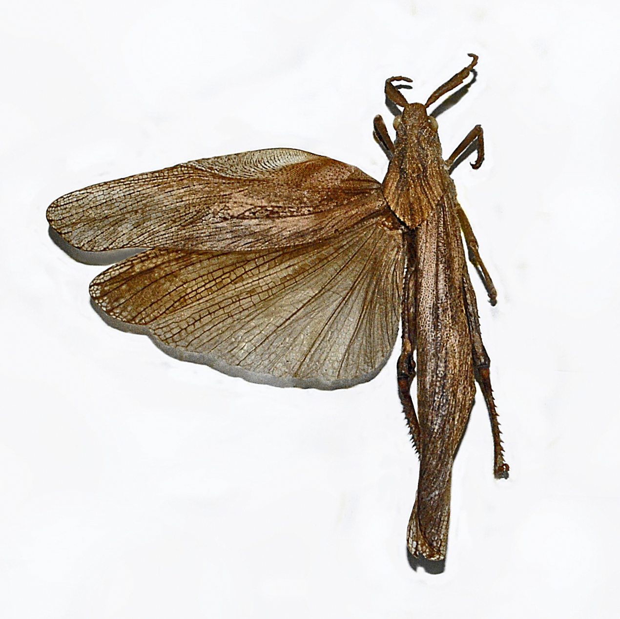 Xiphoceriana atrox. On display at Museo di Storia Naturale di Pavia